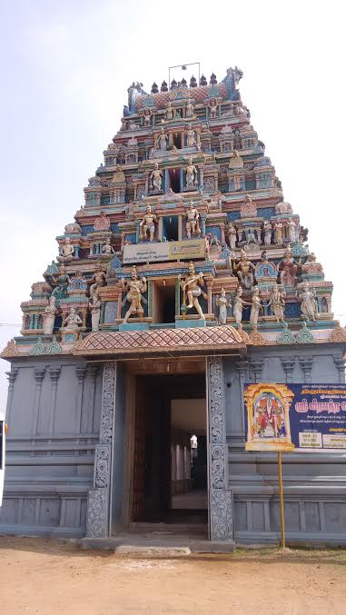 Keelaparasalur veeratesvarar temple1 கீழப்பரசலூர் வீரட்டேஸ்வரர் கோயில்